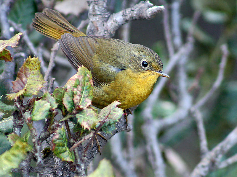 Golden Bush Robin Tarsiger chrysaeus at Mailee Thaatch (11,000 ft.) in Kullu District of Himachal Pradesh, India.